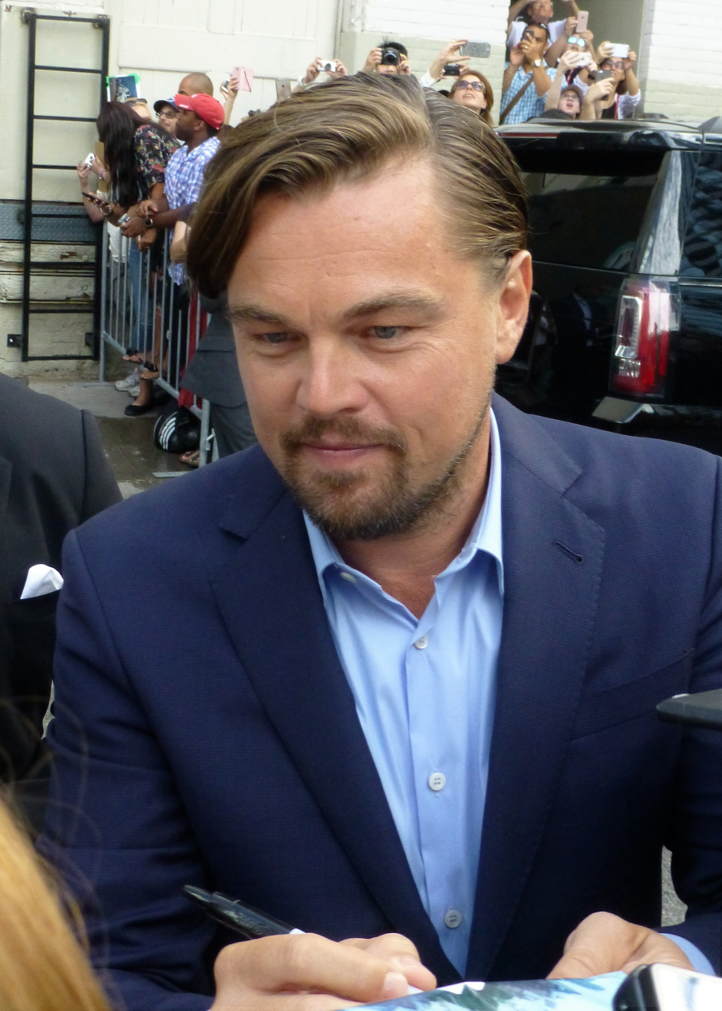 Leonardo DiCaprio at the premiere of Before the Flood, 2016 Toronto Film Festival